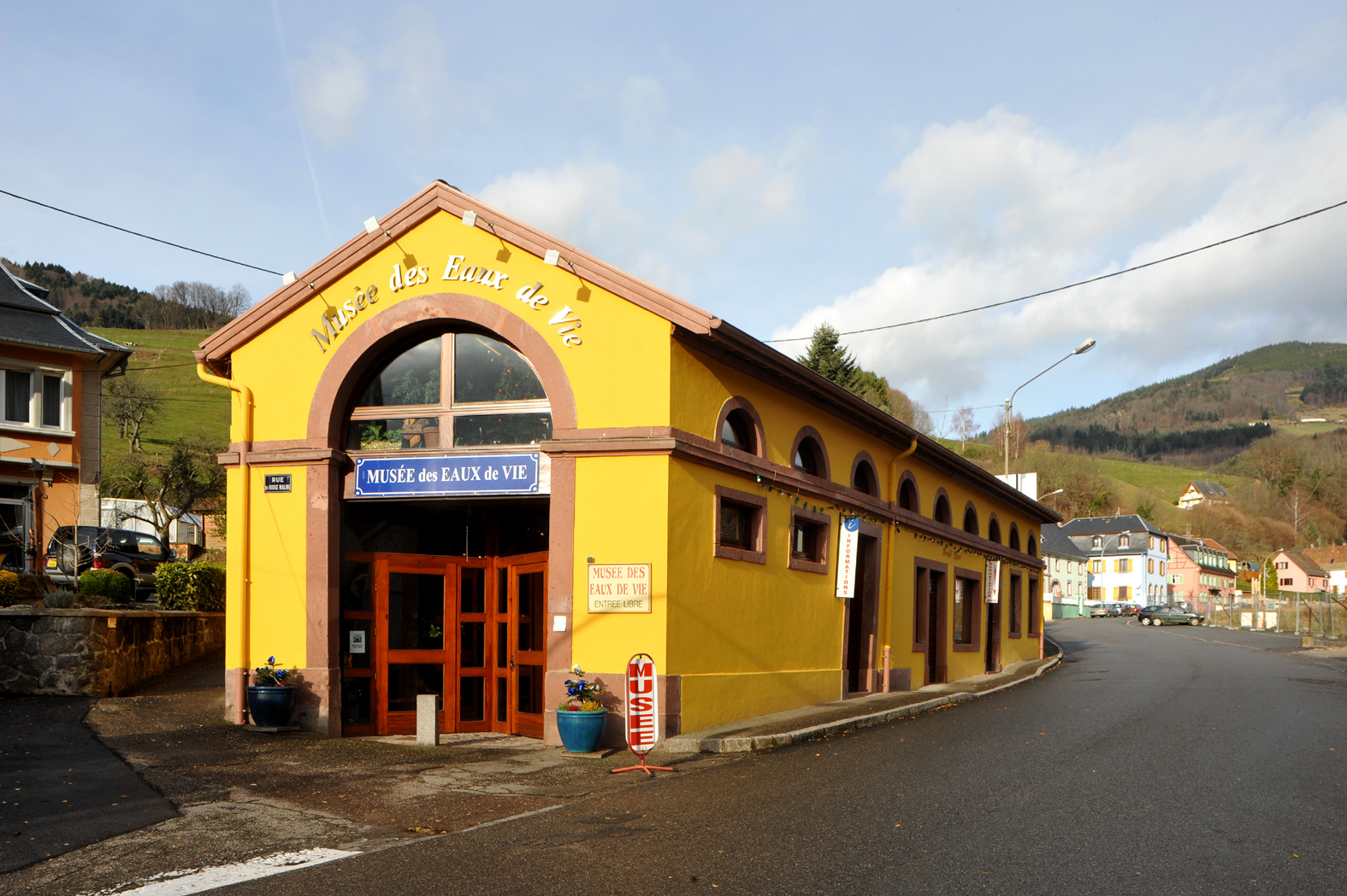 Spirits museum (Musée des Eaux de Vie) in Lapoutroie; Haut-Rhin, France.